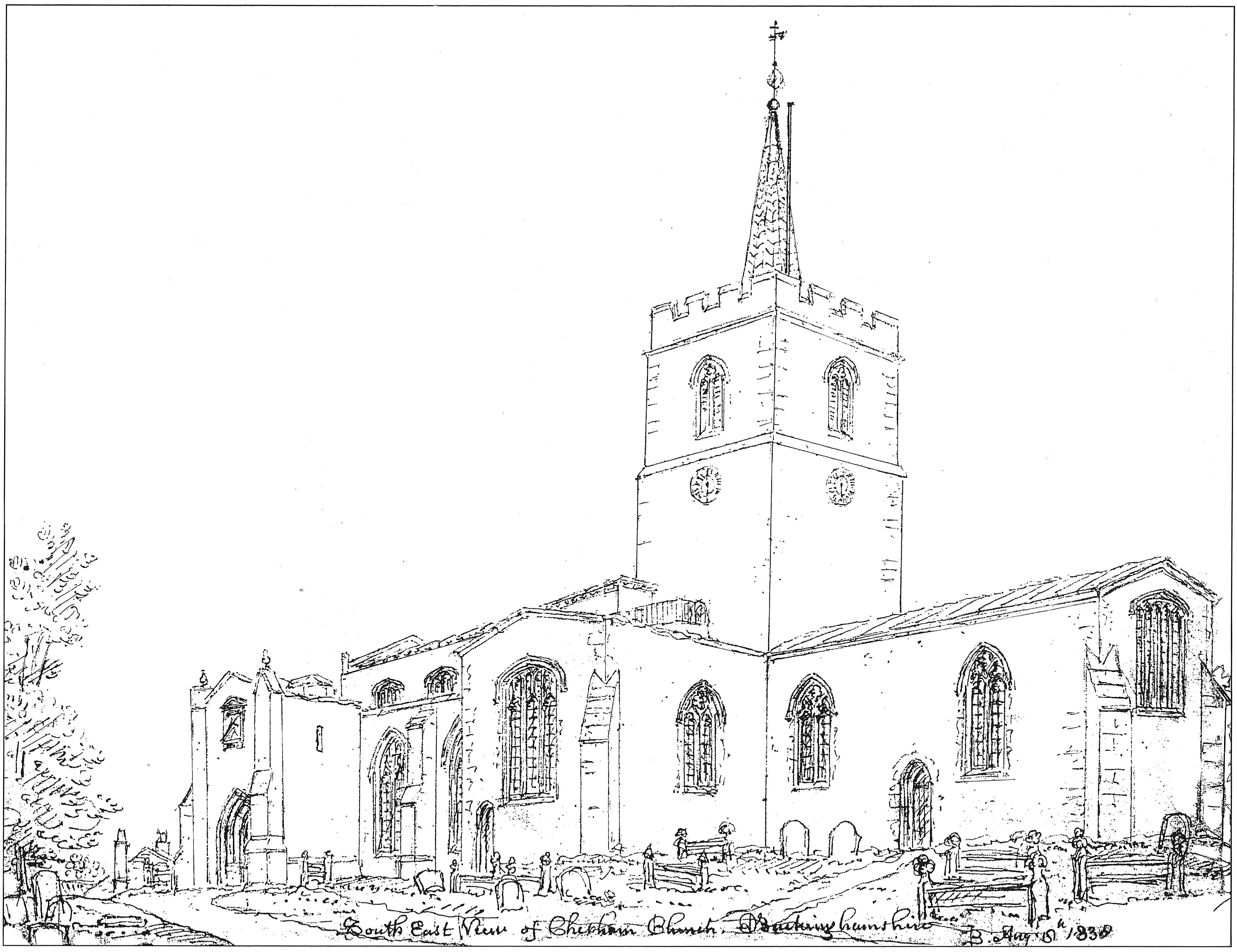 St Mary's Church, Chesham, Buckinghamshire, in 1838